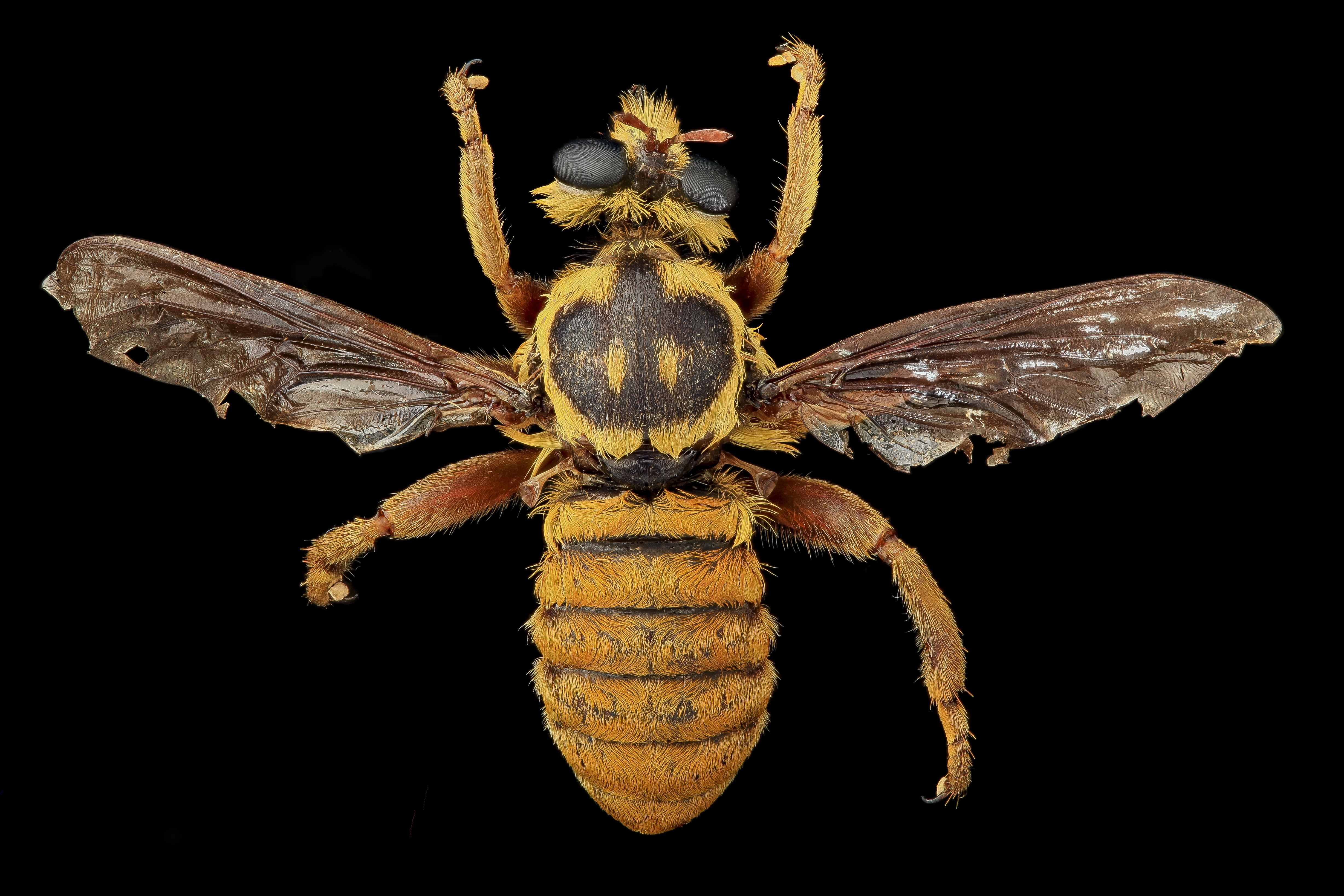 Laphria saffrana, a fly, a robberfly to be exact, but a lovely mimic of Yellowjackets. Collected at Hitchiti Experimental Forest, Georgia, in Glycol trap